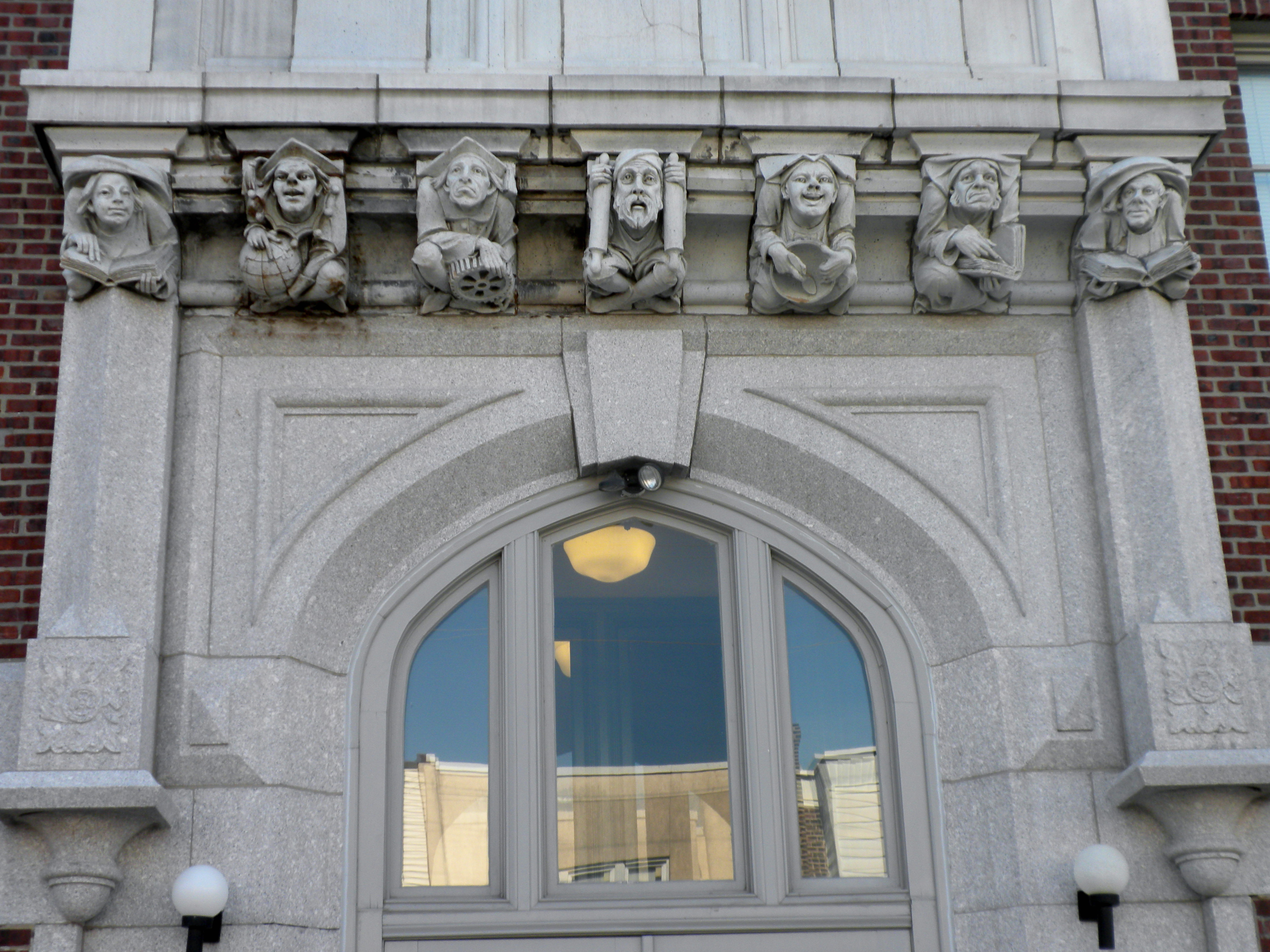 Sculptural figures above door at Anthony Wayne School, which has been on the NRHP since December 1, 1986. At 1701 South 28th Street in Grays Ferry neighborhood of south Philadelphia.